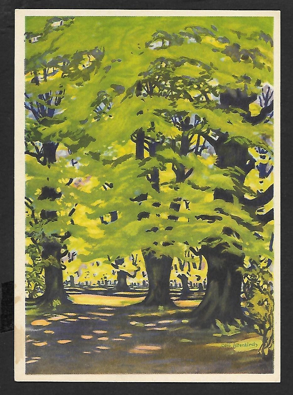 Poster stamp ...